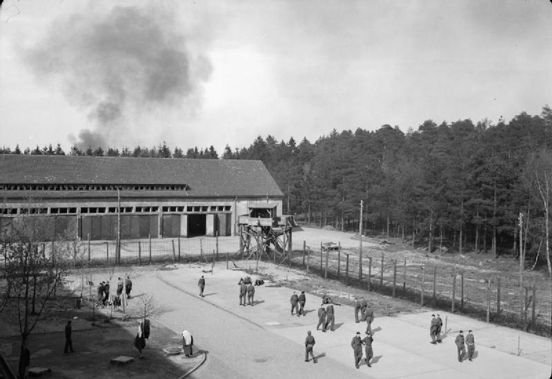 The British Army in North-west Europe 1944-45 A photograph taken covertly at Oflag 79 in Brunswick, showing POWs in one of the compounds and smoke in the distance from German demolitions at the neighbouring airfield, April 1945.